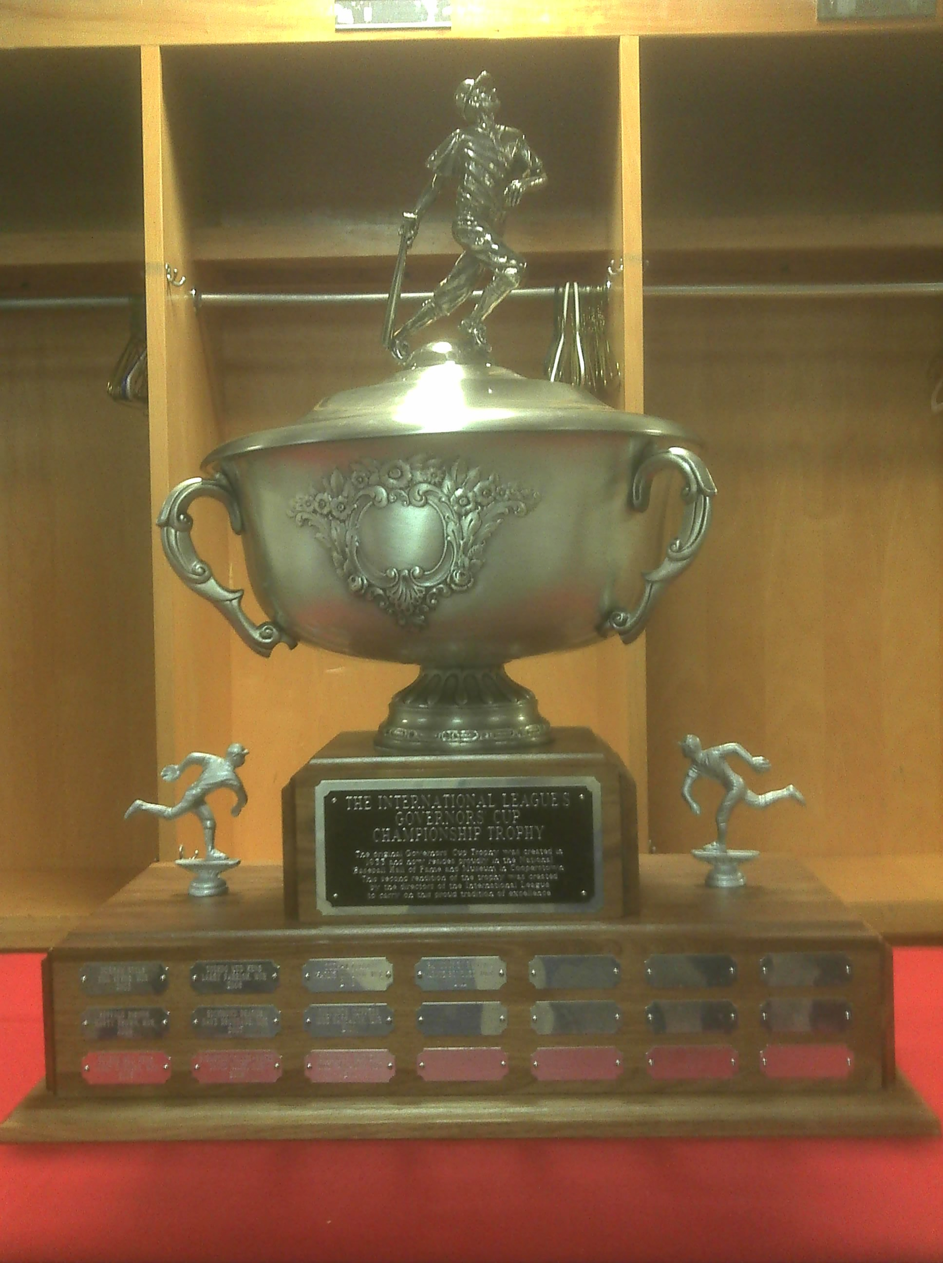 The second Governors' Cup Trophy presented to the International League Champion after the 2012 season